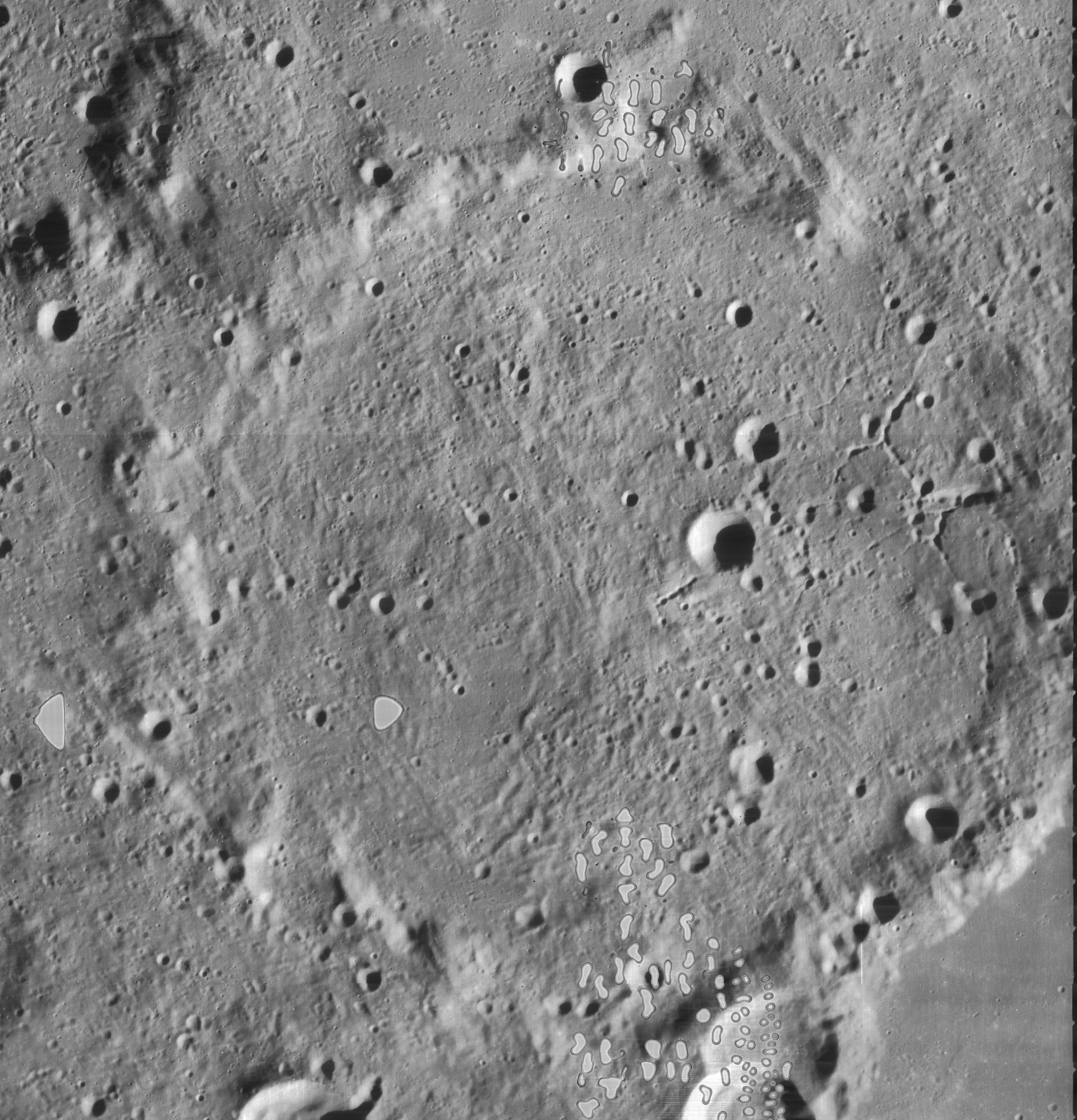 J. Herschel, on the moon. Groups of white dots are blemishes on the originals.